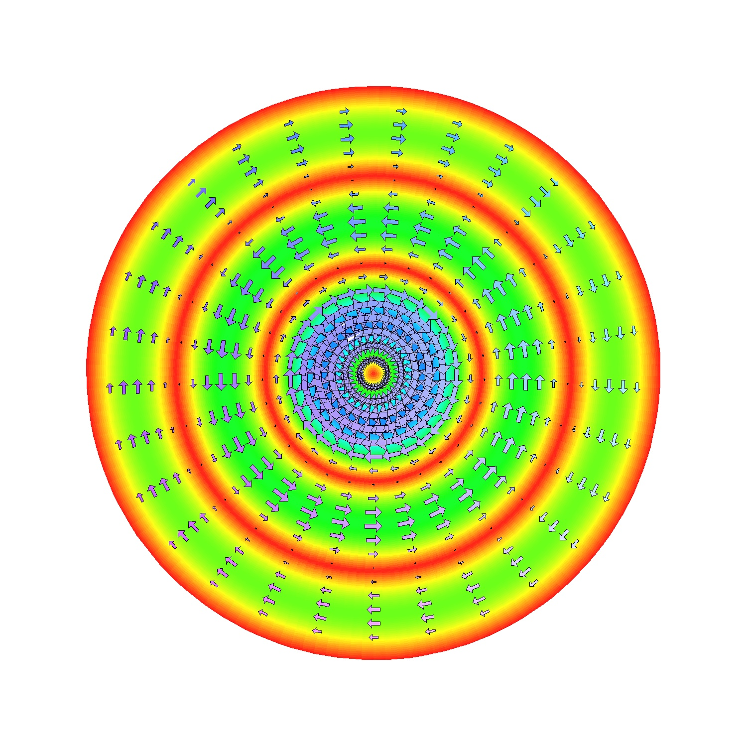 Plot of E and H fields on the TEnl mode defined by n and l.